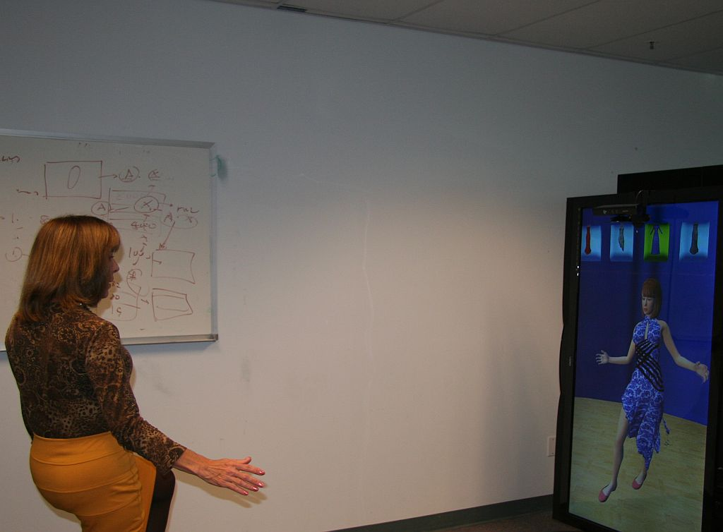 We want to create a real-time experience where you can answer, "How does this look on me when I'm standing, twirling or walking, and does this style suit me, does this go with something that I already have?" said Nola Donato, a 3-D graphics architect at Intel Labs. See more: Can Augmented Reality Change How You Shop for Clothes? Personal avatars, real-time clothing simulation and virtual closets could alter fashion retailing. Instead of stepping into a fitting room to try on new clothes, shoppers may soon activate an augmented reality body double on a retail kiosk or their personal device. Parents could carry around avatars of their children, making it easy to buy clothes that fit and match with other clothes already hanging in the closet at home. Experiments with so-called digital dressing room technology have been around for years, including the multimedia bathroom mirror from the New York Times Research and Development Lab and the Magic Mirror avatar experience developed by Intel Labs researcher Nola Donato. Recently, Nordstrom's CEO said technology innovations such as digital fitting rooms will change the way people shop for clothes. It's a trend that European retailers Tesco and Zalando are pushing ahead, as is Bodymetrics, which is using Microsoft Kinect technology to create full-body scanners to help Bloomingdale's shoppers find the perfect-fitting pair of jeans.